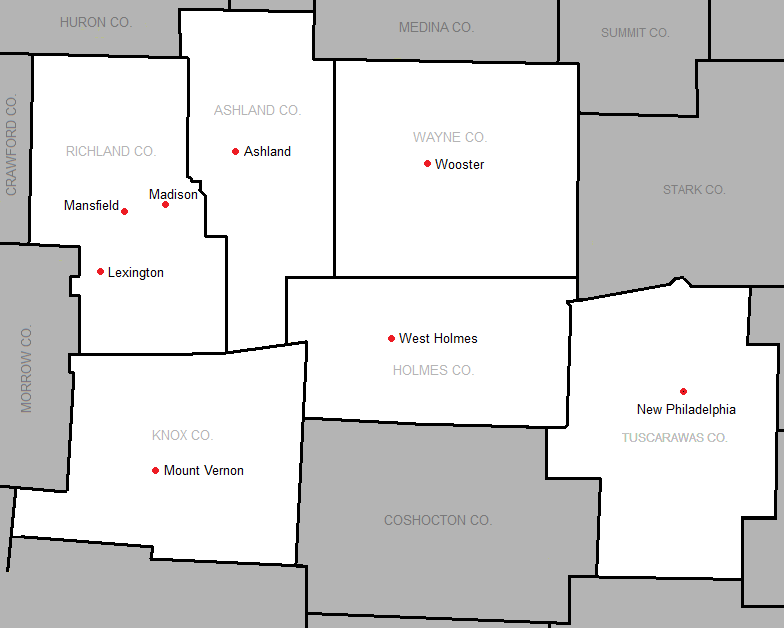 Map showing the OCC members beginning with the 2016-17 school year.